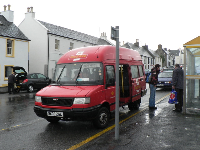 Bowmore: the Post Bus. The bus service from Port Ellen to Bowmore runs roughly two-hourly – and, once each way daily, is operated by Royal Mail, when the postman goes down to Port Ellen to deliver to the sorting office and when he comes back through, probably with post from the ferry. In the window, you can see that it continues to Portnahaven. As will be seen from the timetable, this is technically the number 196 bus.